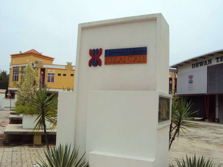 Another landmark of UMK